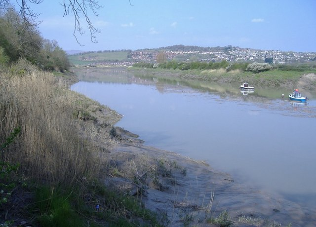 The River Usk, looking downstream